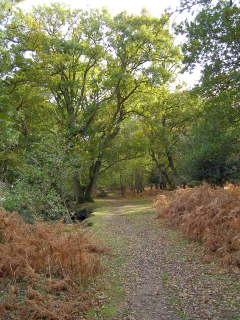 Path through woodland alongside Highland Water, New Forest This path runs along the western bank of the straightened section of Highland Water between Queen Bower and Queen's Meadow.